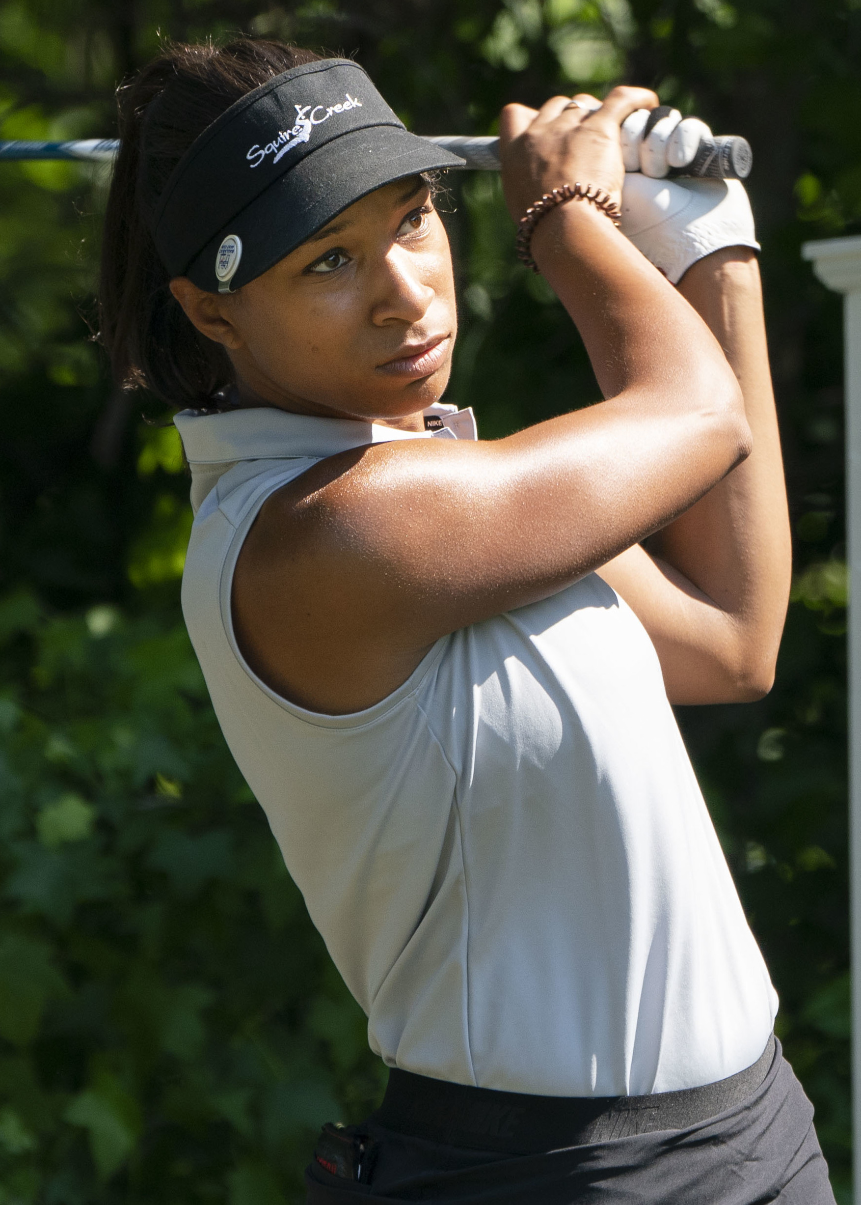 Pure Silk Championship 2019